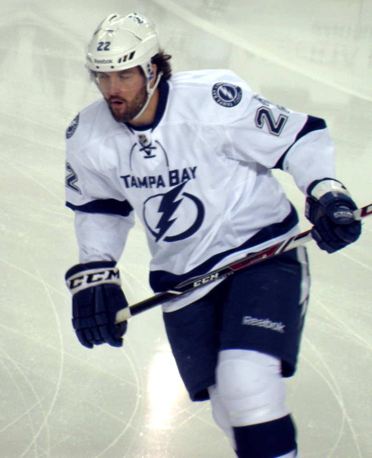 Tampa Bay Lightning defenceman Jean-Philippe Côté prior to a National Hockey League game in Calgary